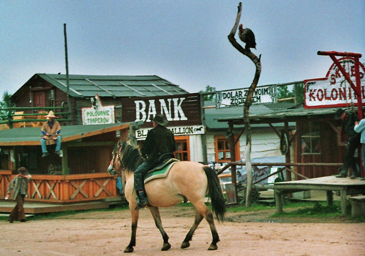 Ścięgny-performance in Western City